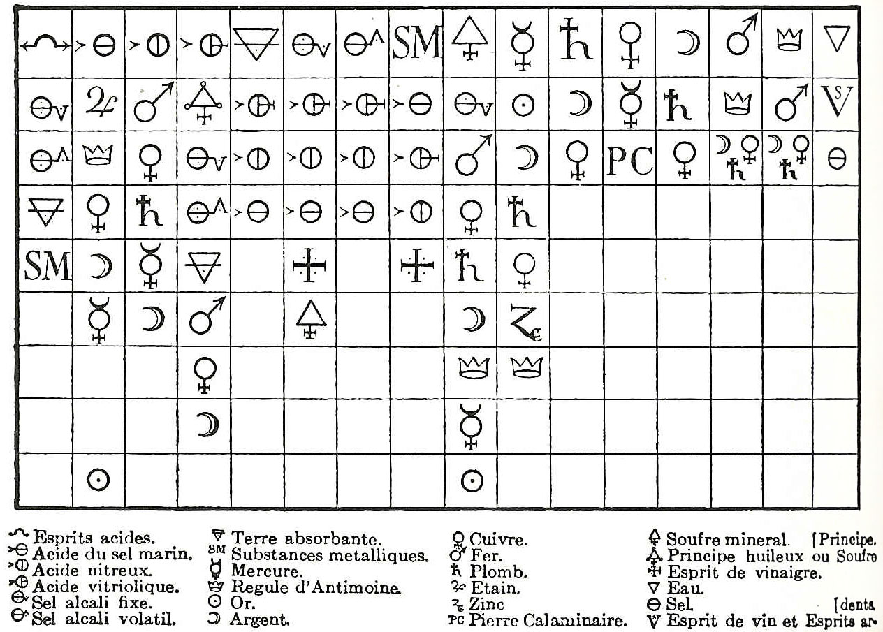 Étienne François Geoffroy's 1718 affinty table